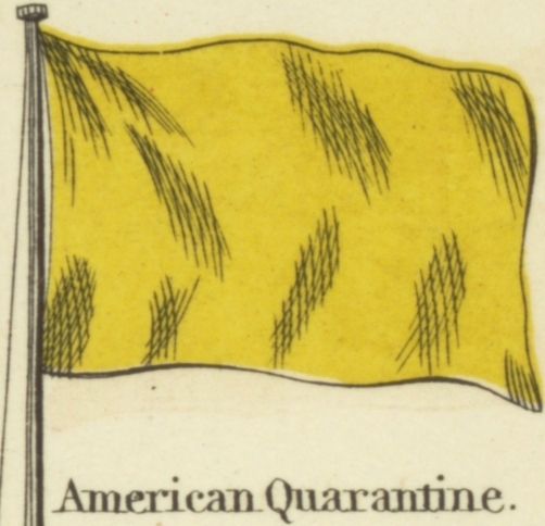 American Quarantine. Johnson's new chart of national emblems, 1868.jpg Johnson's new chart of national emblems. Print showing the flags of various countries, those flown by ships, and the "Signals for Pilots." In the top left corner is the "United States" 37-star flag, in the top right corner is the "Royal Standard of the United Kingdom Great Britain & Ireland"; in the bottom left corner is the "Russian Standard" and in the bottom right corner is the "French Standard." The flags on this sheet differ slightly from those on another sheet numbered 4 [top left] and 5 [top right].